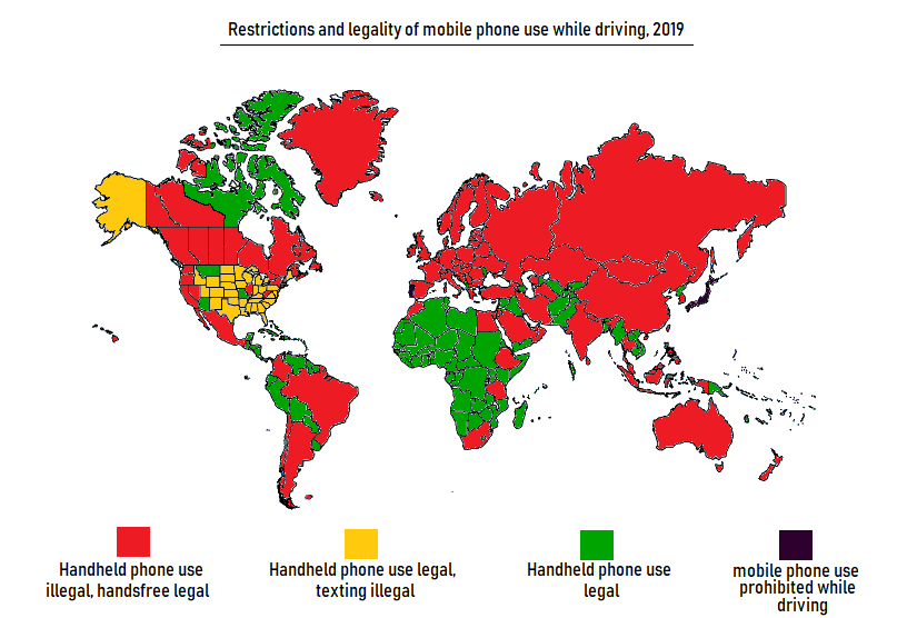 Various laws and restrictions on mobile phone use whilst driving